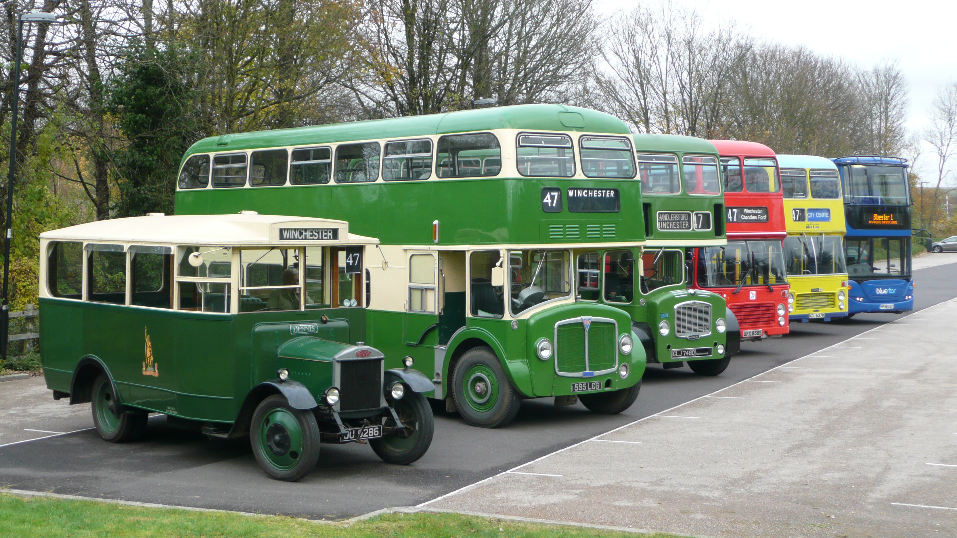 All of the buses that took part in the convoy lined up at Winchester's St Catherine's park and ride site at the event celebrating the transformation of service 47 to Bluestar 1 and the launch of one of the new buses. This is the lineup seen from the left after the buses were moved closer together, although the sides were then less visible. King Alfred bus (reg. OU 9286) King Alfred bus (reg. 595 LCG) Hants & Dorset bus 1540 (reg. GLJ 748D) Hants & Dorset bus 3377 (reg. UFX 858S) Solent Blue Line bus 37 (reg. NDL 637M) Bluestar bus 1125 (reg. HF58 GZP)